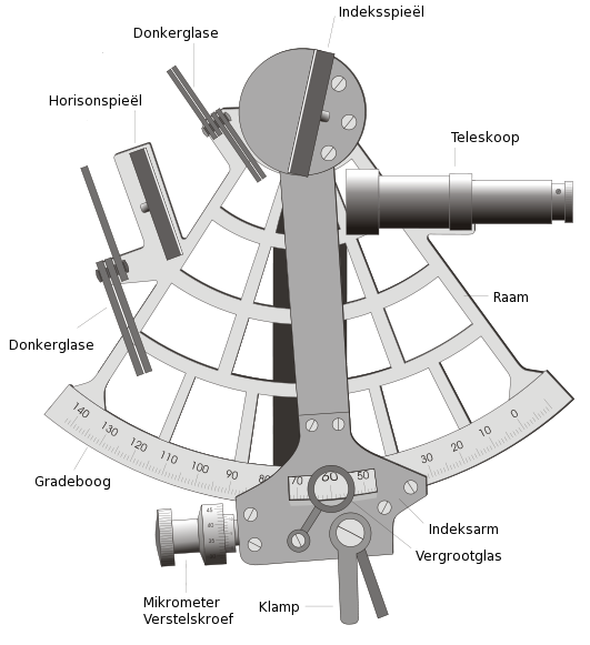 Diagram of a marine sextant used for observing heavenly bodies.